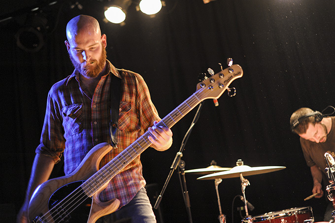 Sleepermakeswaves @ The Bakery (28/9/2012)